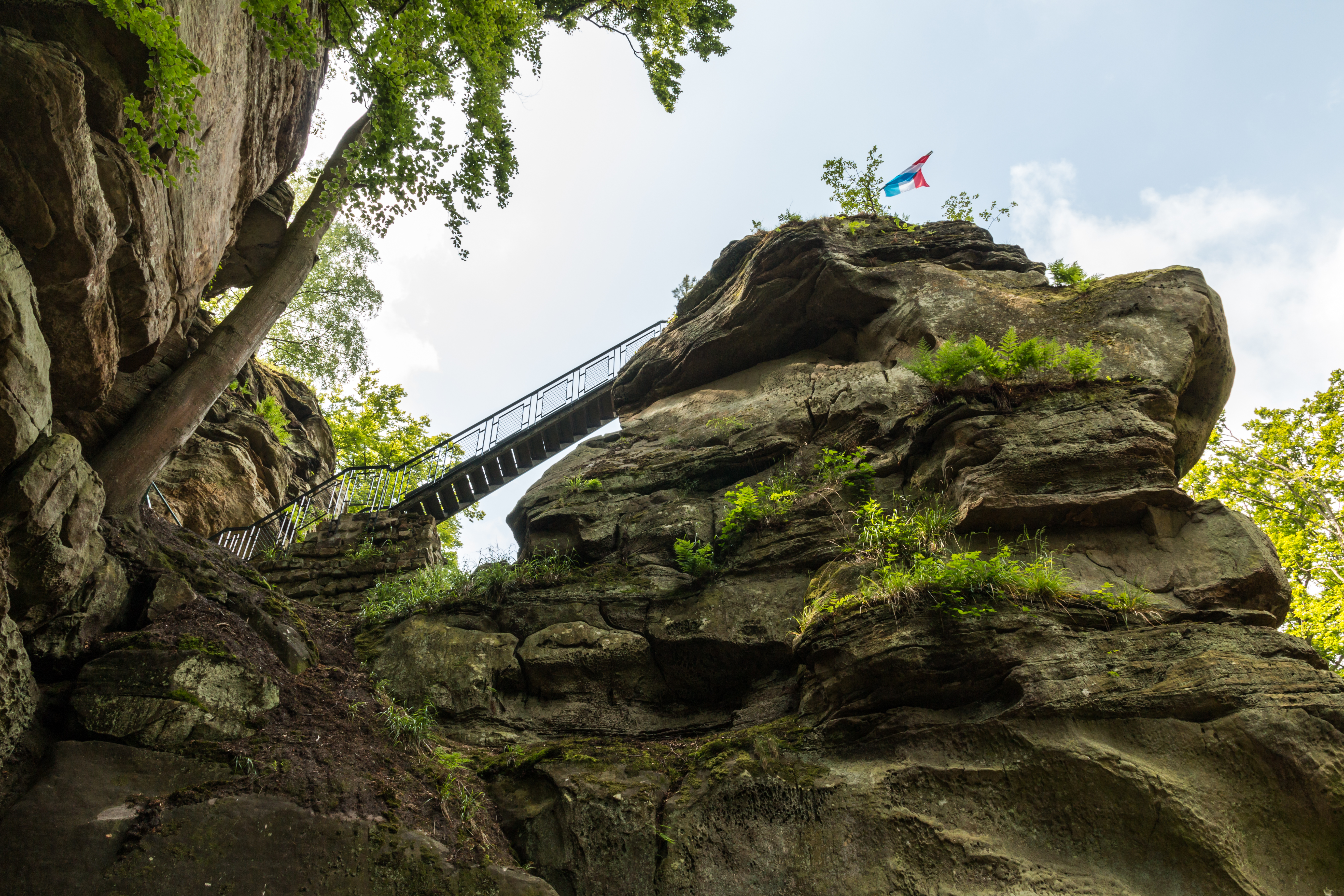 Predigtstuhl in the labyrinth “Werschrummschloeff” near Berdorf, Luxembourg